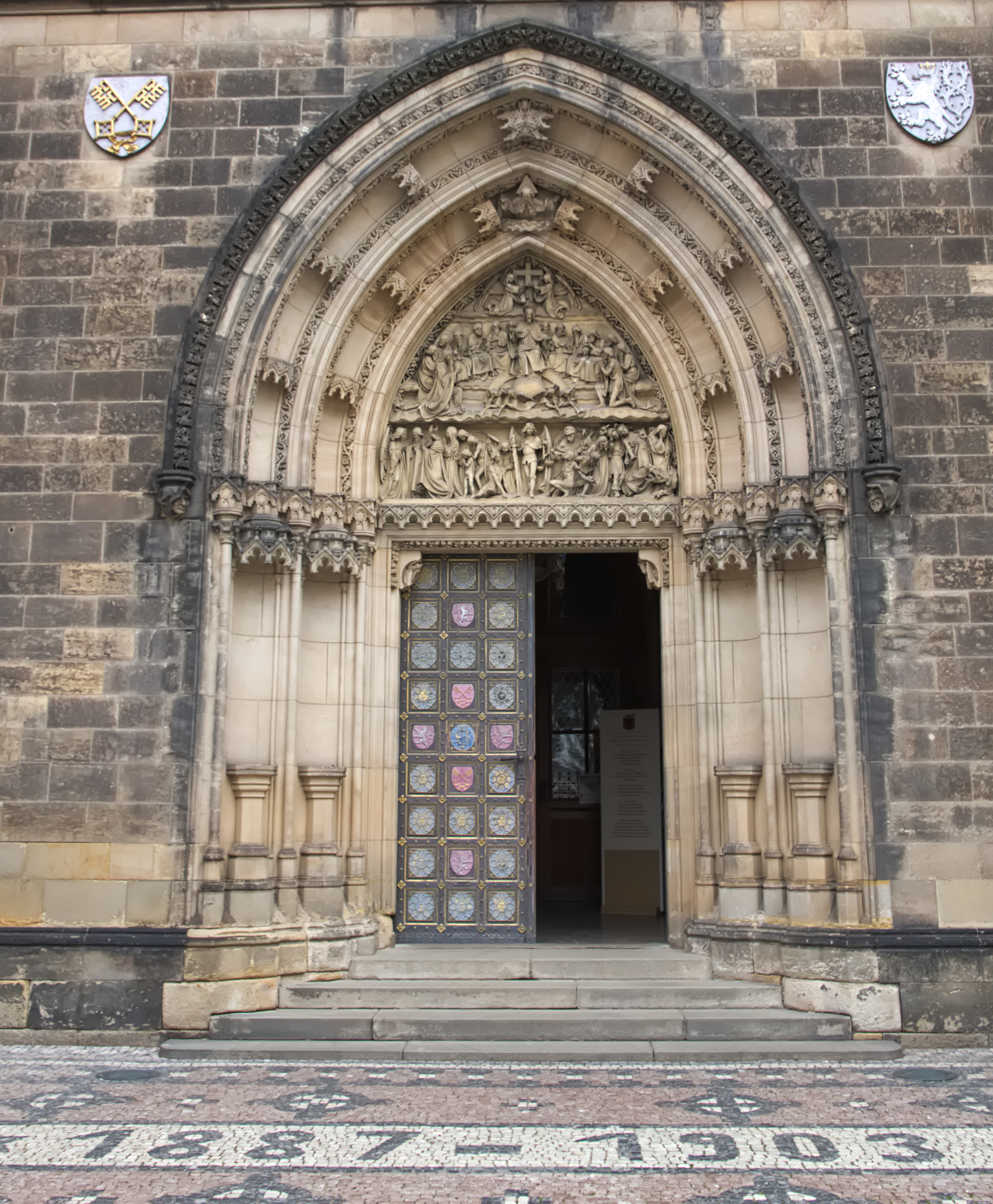 Church of Saints Peter and Paul in Vyšehrad, Prague.